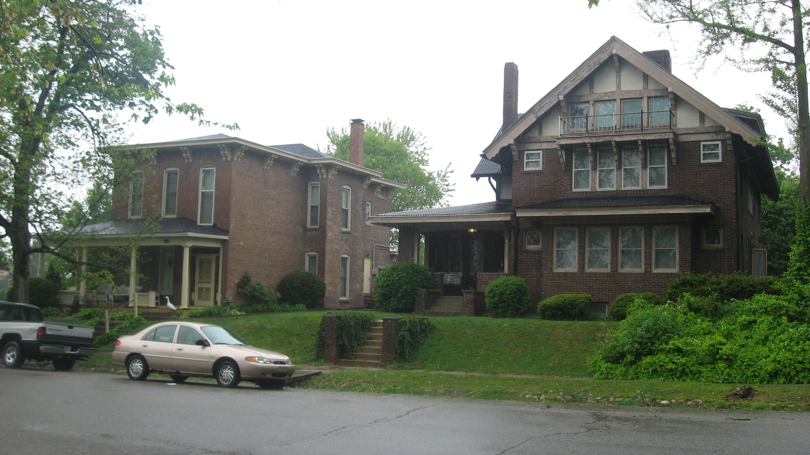 Houses at 400 (left) and 402 (right) E. Washington Street in Attica, Indiana, United States. Built in 1877 and 1909 respectively, they are part of the Old East Historic District, a historic district that is listed on the National Register of Historic Places.